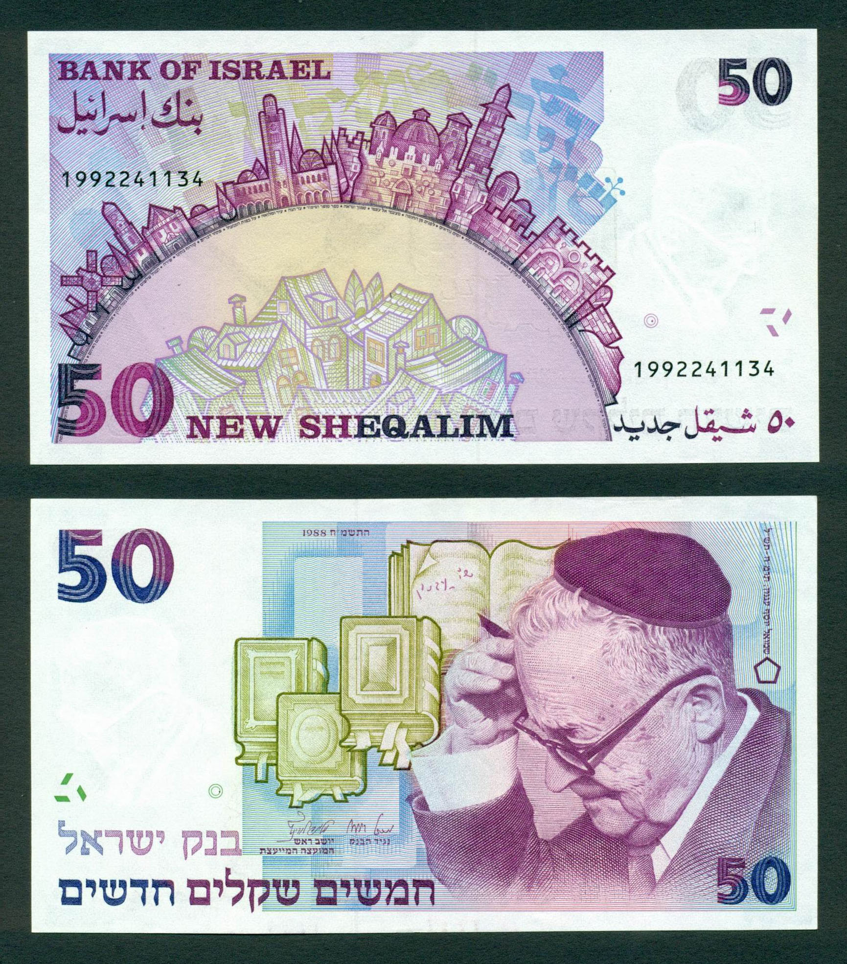 שטר 50 ש"ח, עגנון, בהנפקת בנק ישראל designed by Eliezer Weishoff